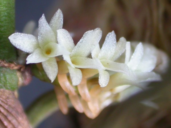 Campylocentrum micranthum - specimen from Brazil